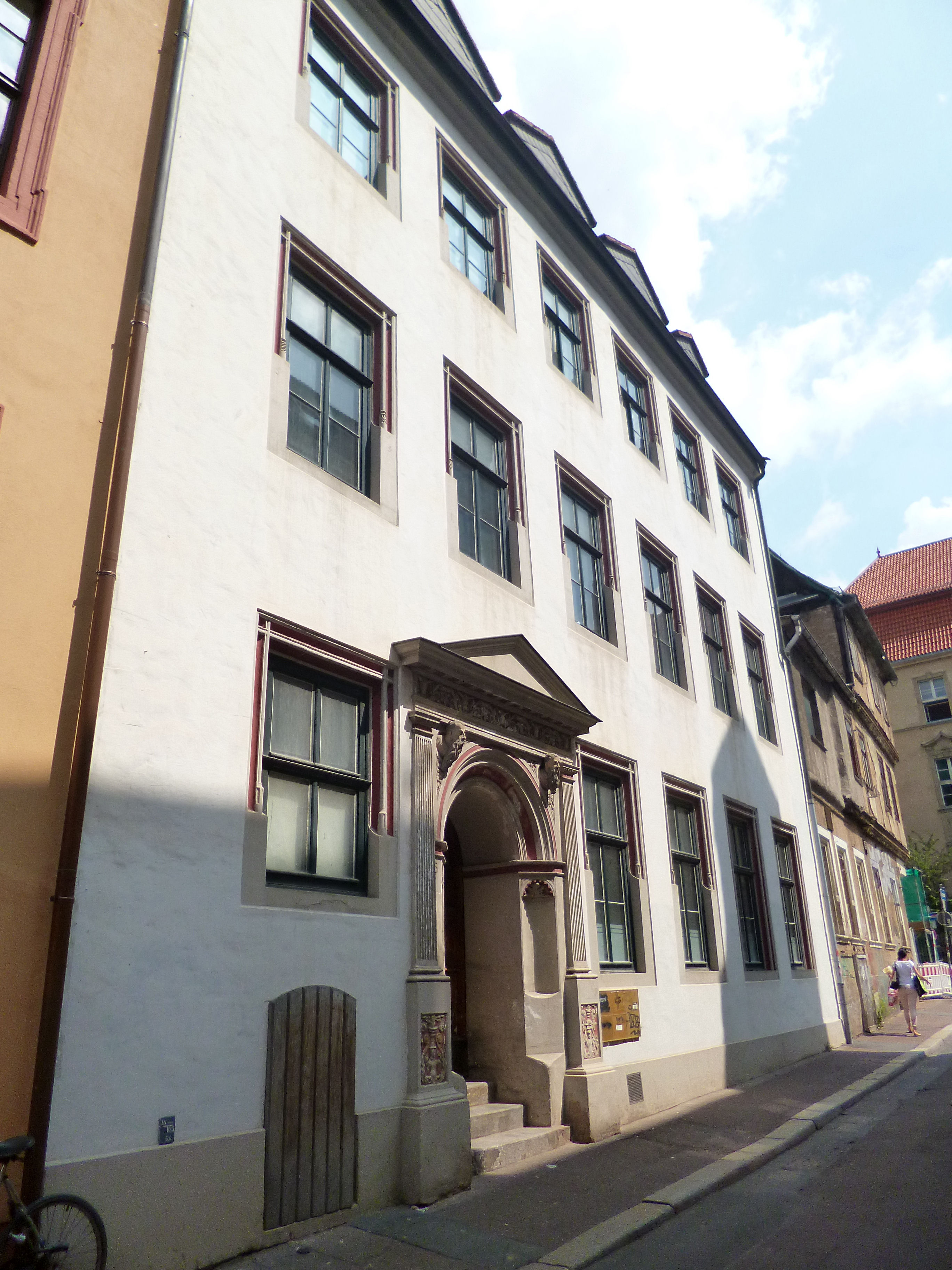 House No. 6 Brüderstrasse in Halle (Saale)